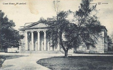 Old postcard showing Waterford Courthouse